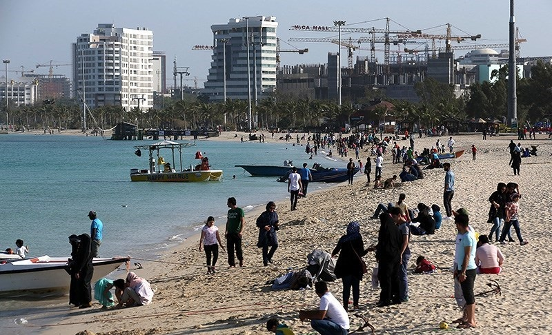 Kish Island during Norouz holidays